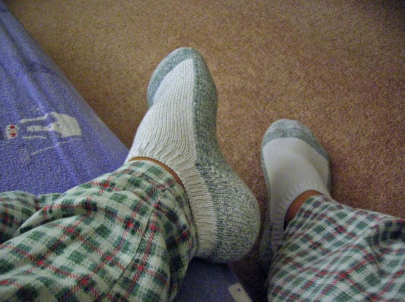 Me wearing my socks and PJs :P